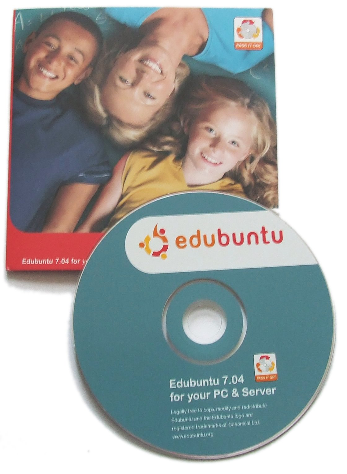 Edubuntu 7.04 package.